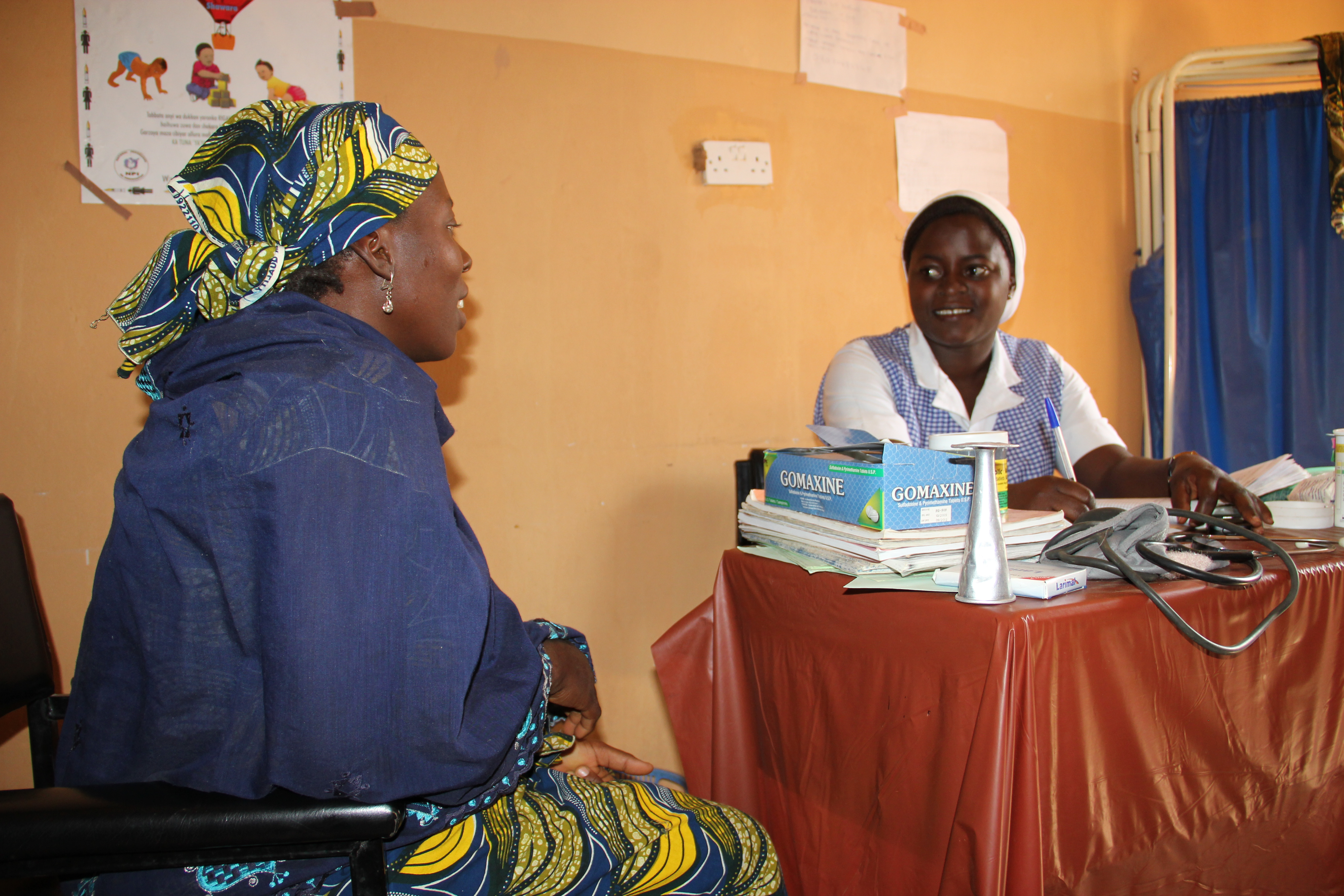 This year the British Government launched a new scheme – Women for Health – to support 7,000 girls and women to train as health workers in northern Nigeria by 2016. A key part of the scheme will be providing a foundation year in 15 schools for girls and women who need additional support to meet entry standards. Find out more at Picture: Lindsay Mgbor/Department for International Development